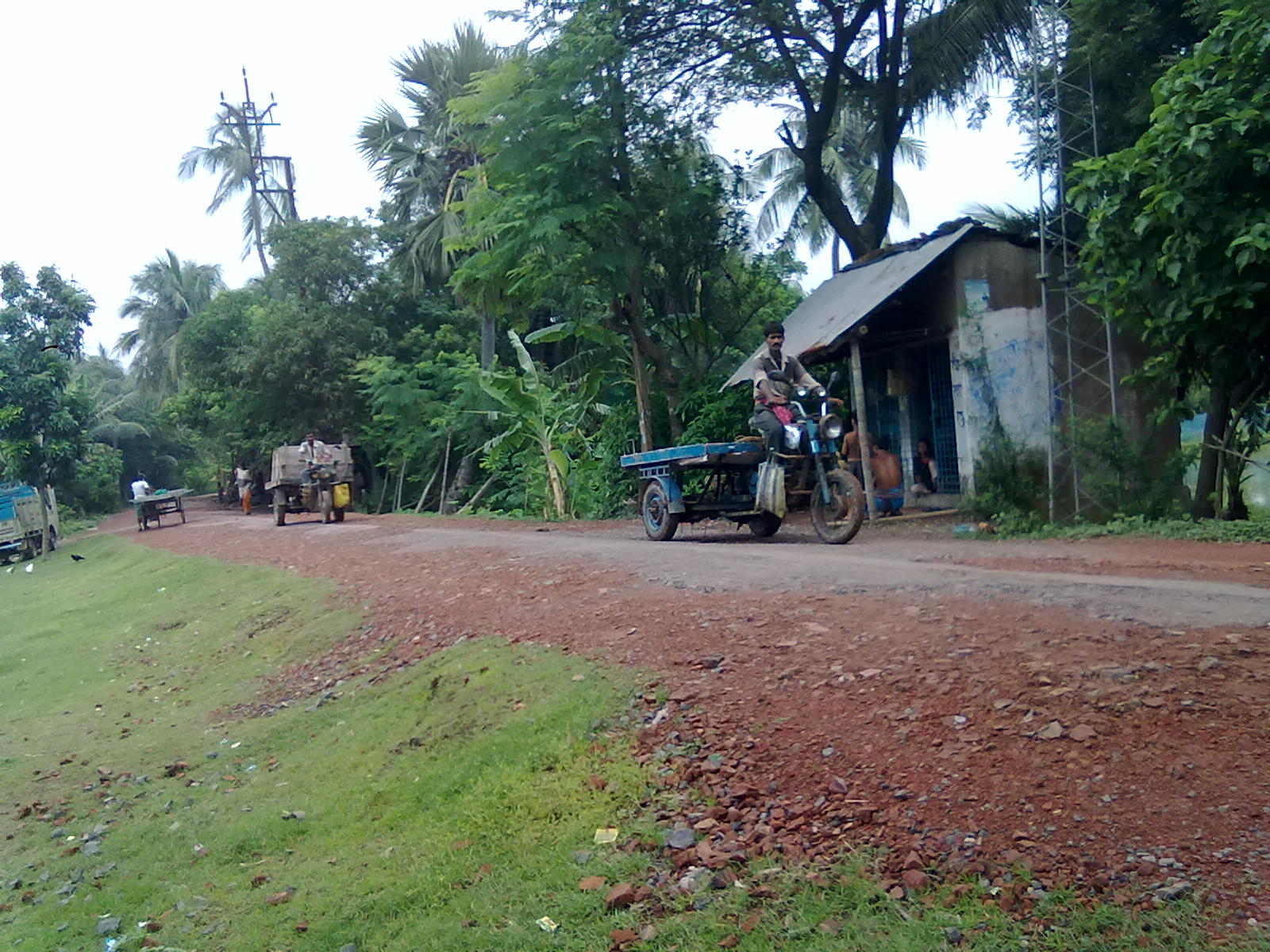 Transportation in Jhuruli, West Bengal, India